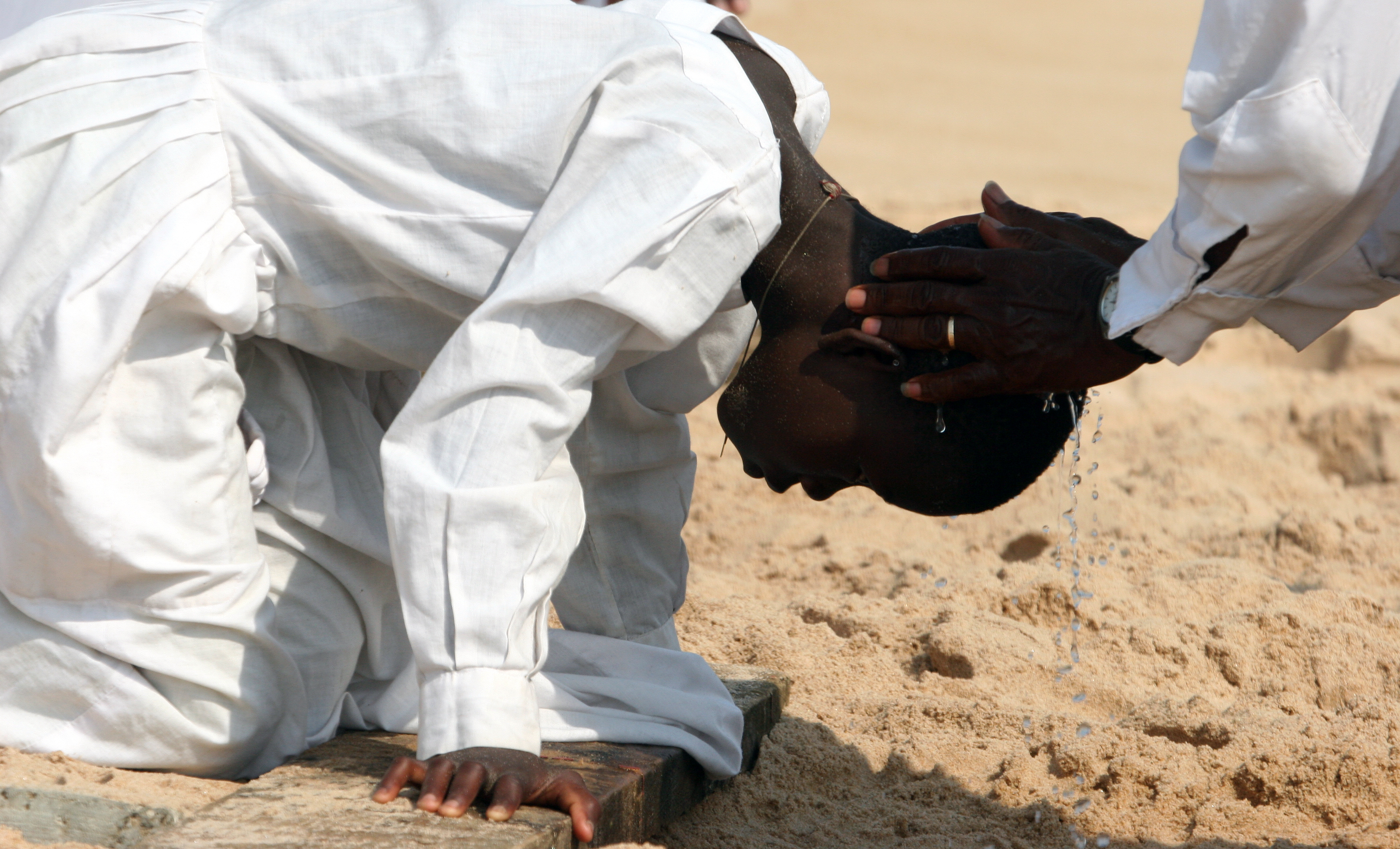 Celestial Church of Christ baptism ceremony, Cotonou, Benin